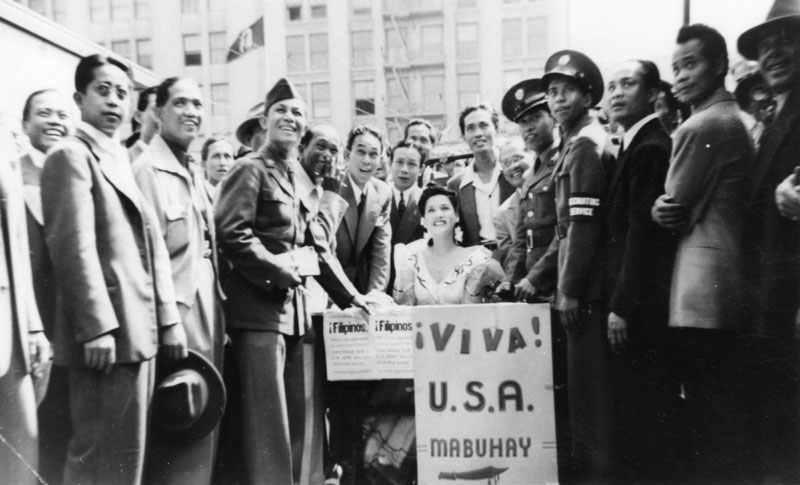 Filipino Americans celebrating their newly gained U.S. citizenship through the nationality act of 1940 which they had earned after fighting for the U.S. in World War Two.